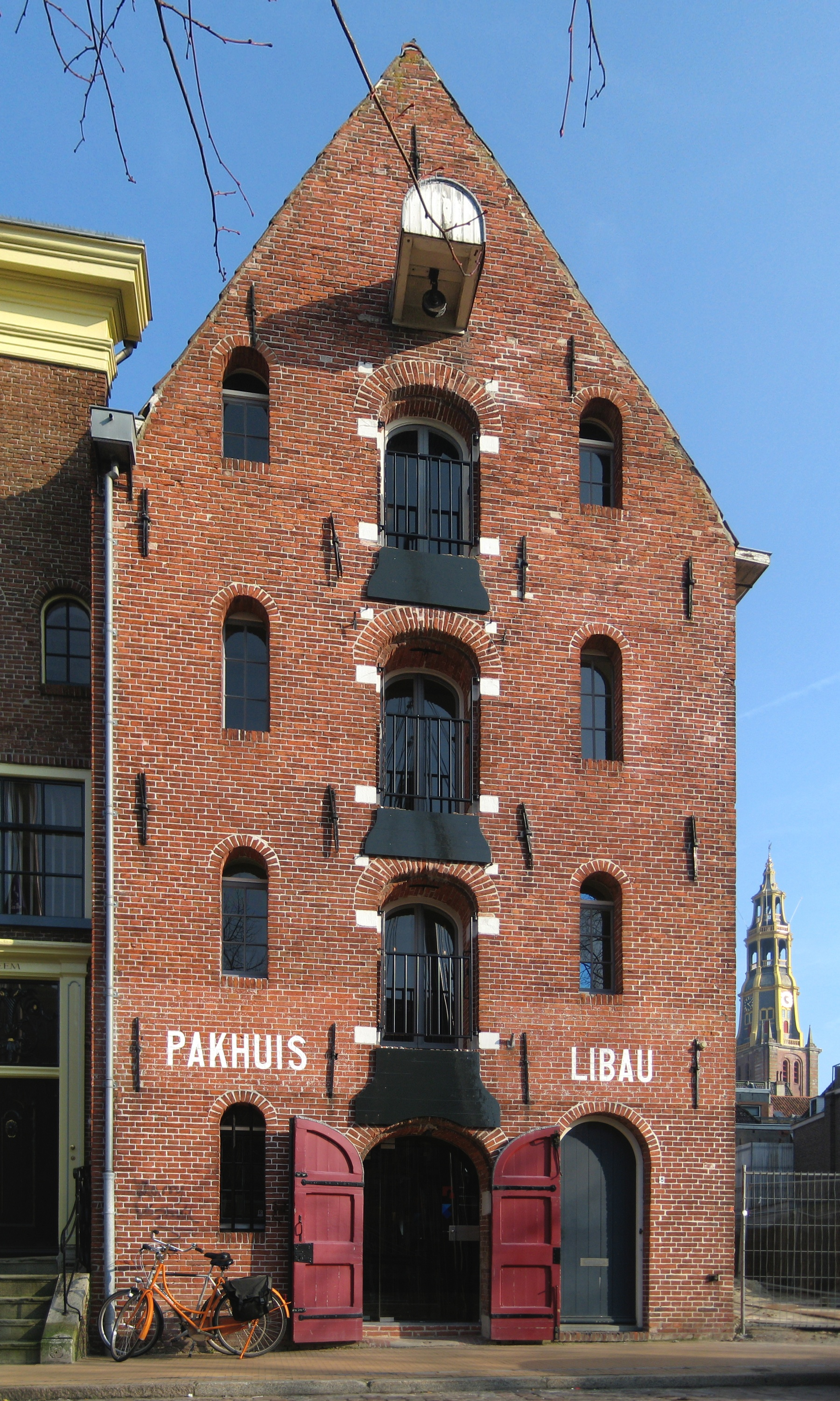 Former warehouse in the Dutch city of Groningen.